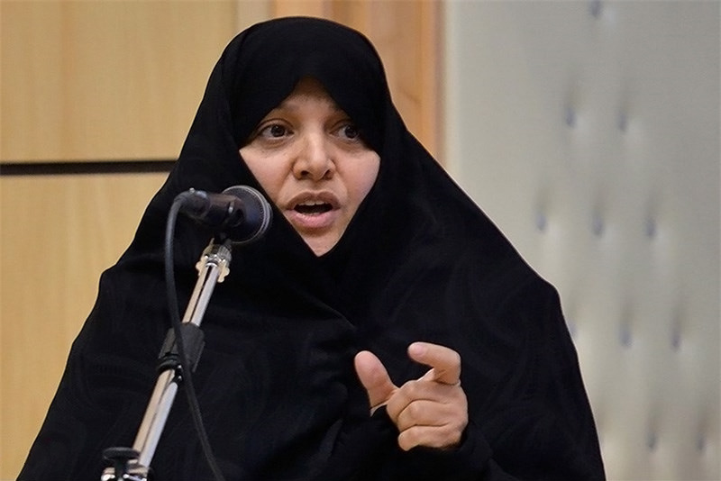 Elham Heydari, Hassan Tehrani Moghaddam' wife